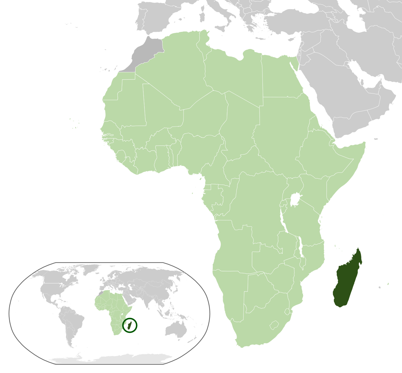 Location of Madagascar (dark green) in the African Union (light green)/Africa (dark grey). Inspired by and consistent with general country locator maps by User:Quizimodo.